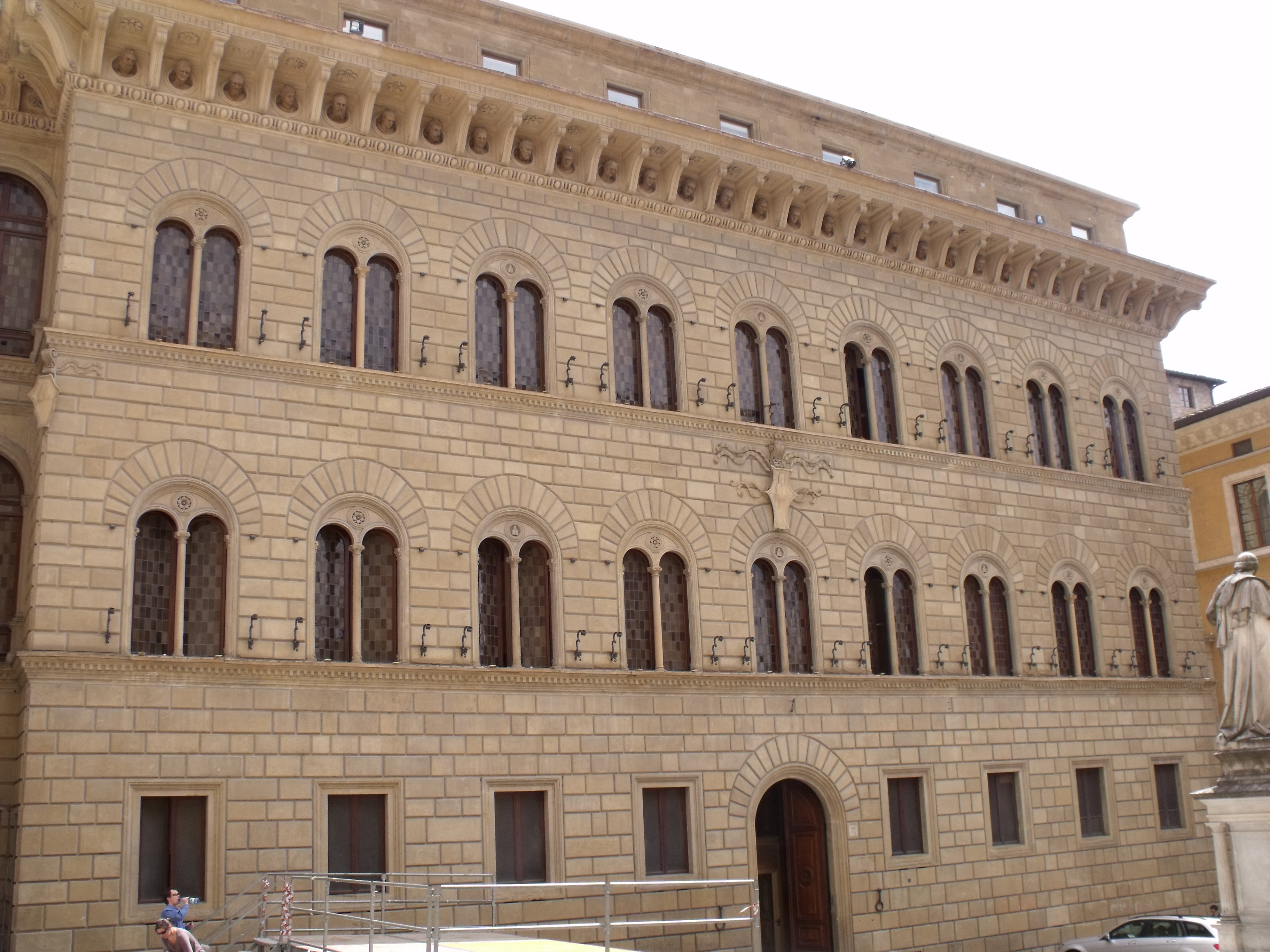 The Palazzo Spannocchi on Piazza Salimbeni in Siena, Tuscany, Italy